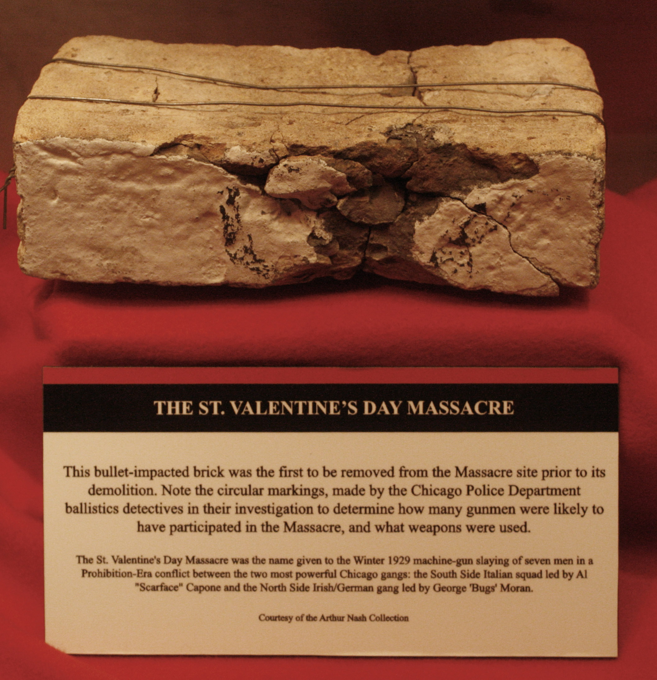 Saint Valentine's Day Massacre brick displayed at the National Museum of Crime & Punishment, Washington, D.C. “ The St. Valentine's Day Massacre This bullet-impacted brick was the first to be removed from the Massacre site prior to its demolition. Note the circular markings, made by the Chicago Police Department ballistics detectives in their investigations to determine how many gunmen were likely to have participated in the Massacre, and what weapons were used. The St. Valentine's Day Massacre was the name given to the Winter 1929 machine-gun slaying of seven men in a Prohibition-Era conflict between the two most powerful Chicago gangs: the South Side Italian squad led by Al "Scarface" Capone and the North Side Irish/German gang led by George "Bugs" Moran. Courtesy of the Arthur Nash Collection ”